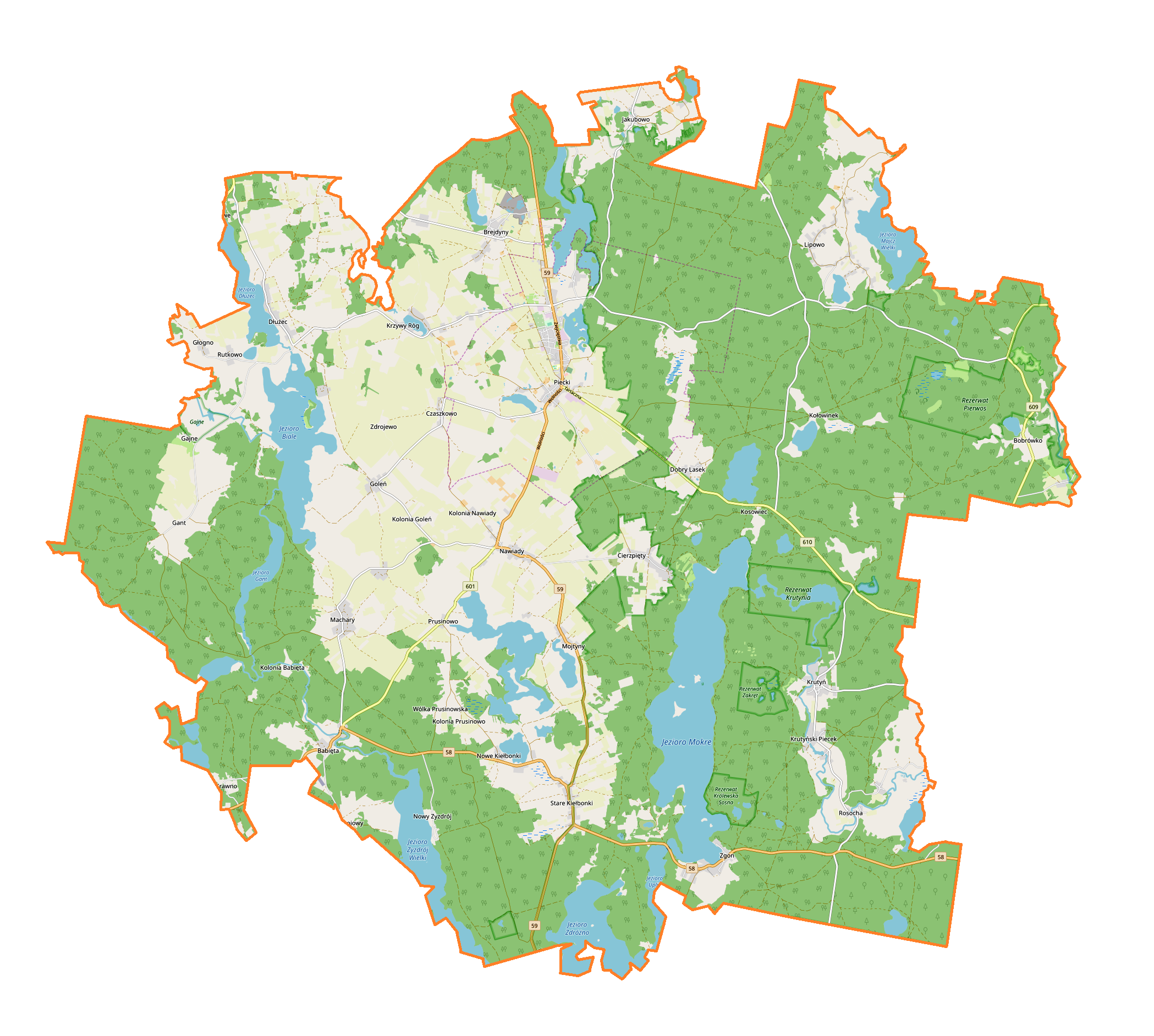 Location map